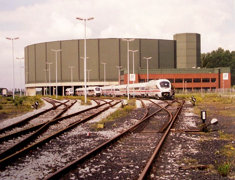 mine railway Sophia-Jacoba- Hückelhoven-Ratheim, Germany with ICE-TD vehicles